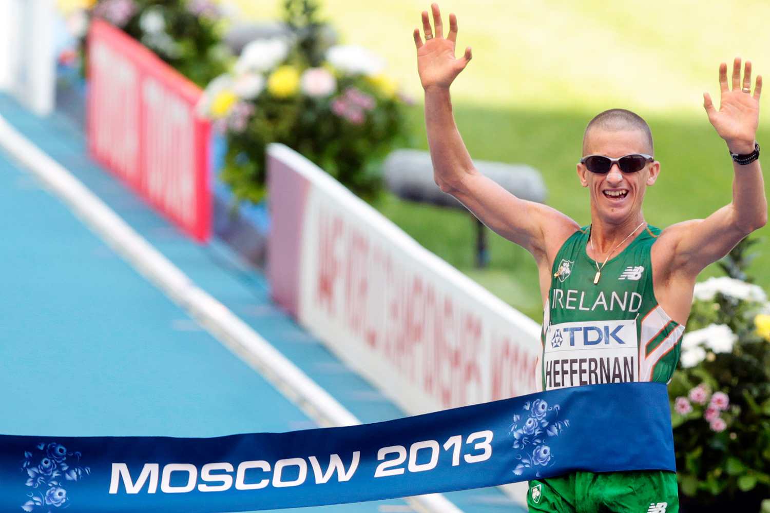 Robert Heffernan on 14th IAAF World Championships in Athletics